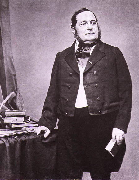 Adalbert Stifter, photo portrait